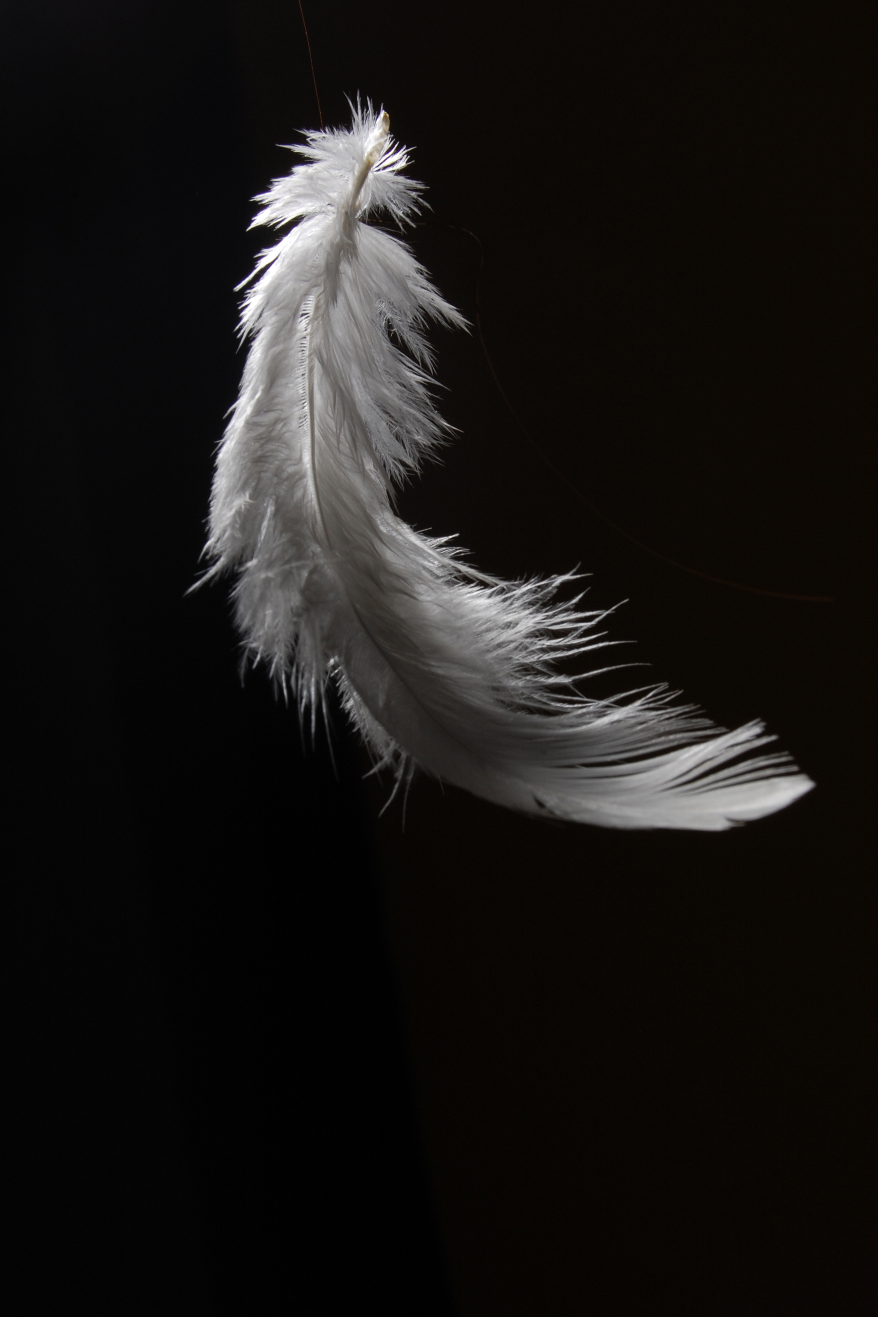 A feather of chicken taken from photograph studio for study